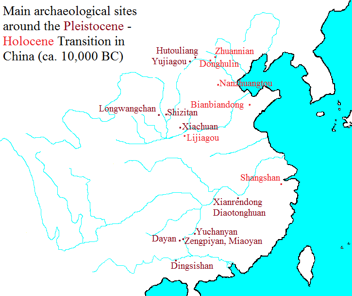 Main archaeological sites around the pleistocene-holocene transition in China, after